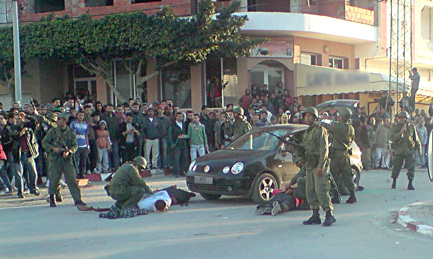 The Tunisian National Army restored order in absence of police services. The picture shows a civilian who was stopped because of a weapon in his car.